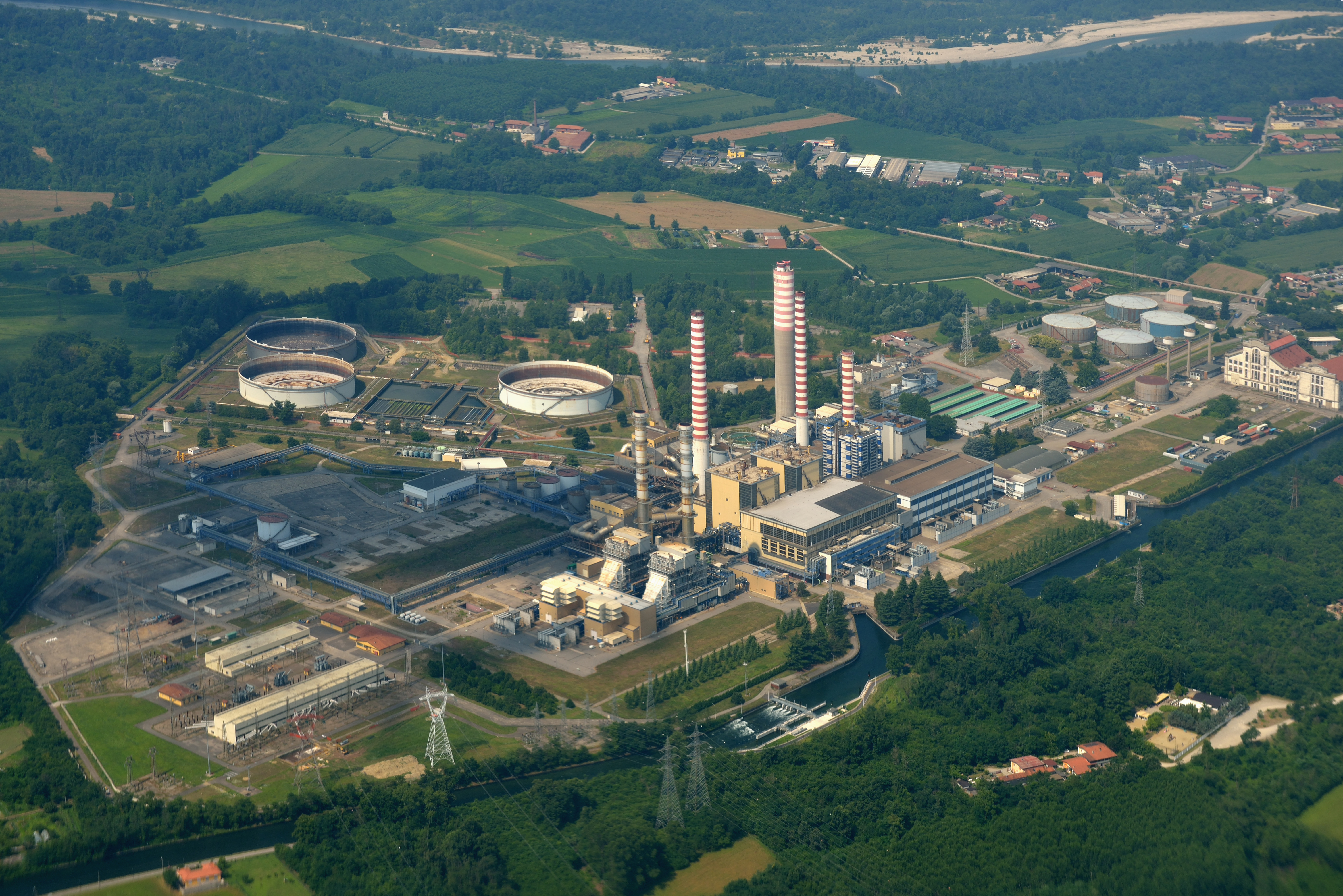 The Thermal power station in Turbigo province of Milan Italy.